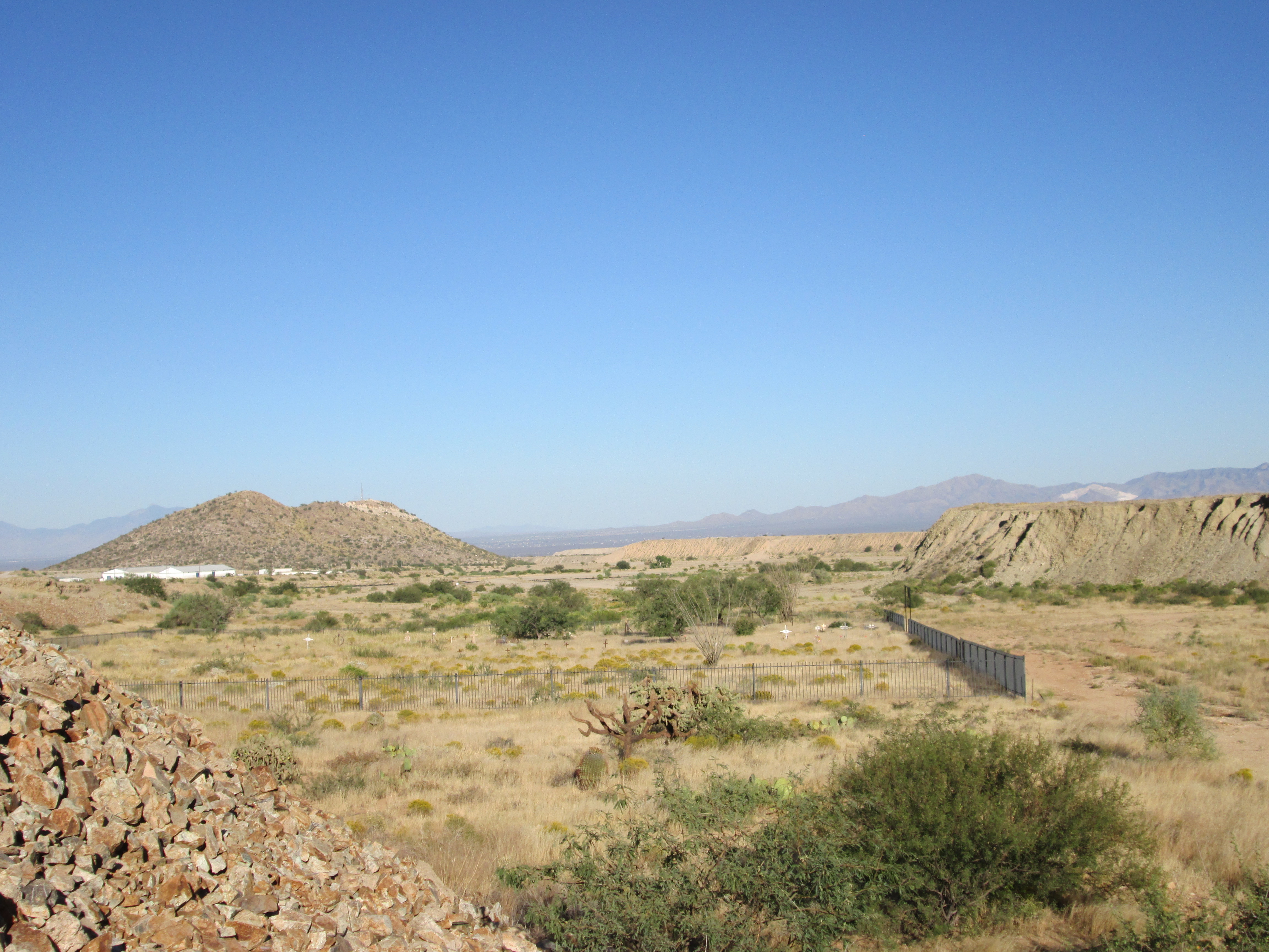 The Twin Buttes Cemetery and surroundings from the top of a mine tailing. Twin Buttes, for which the town was named, is at the left. Modern Twin Buttes Mine buildings are also at the left, in front of Twin Buttes. Santa Rita Mountains in the background at right. Rincon Mountains in background at left, behind Twin Buttes. October 5, 2013